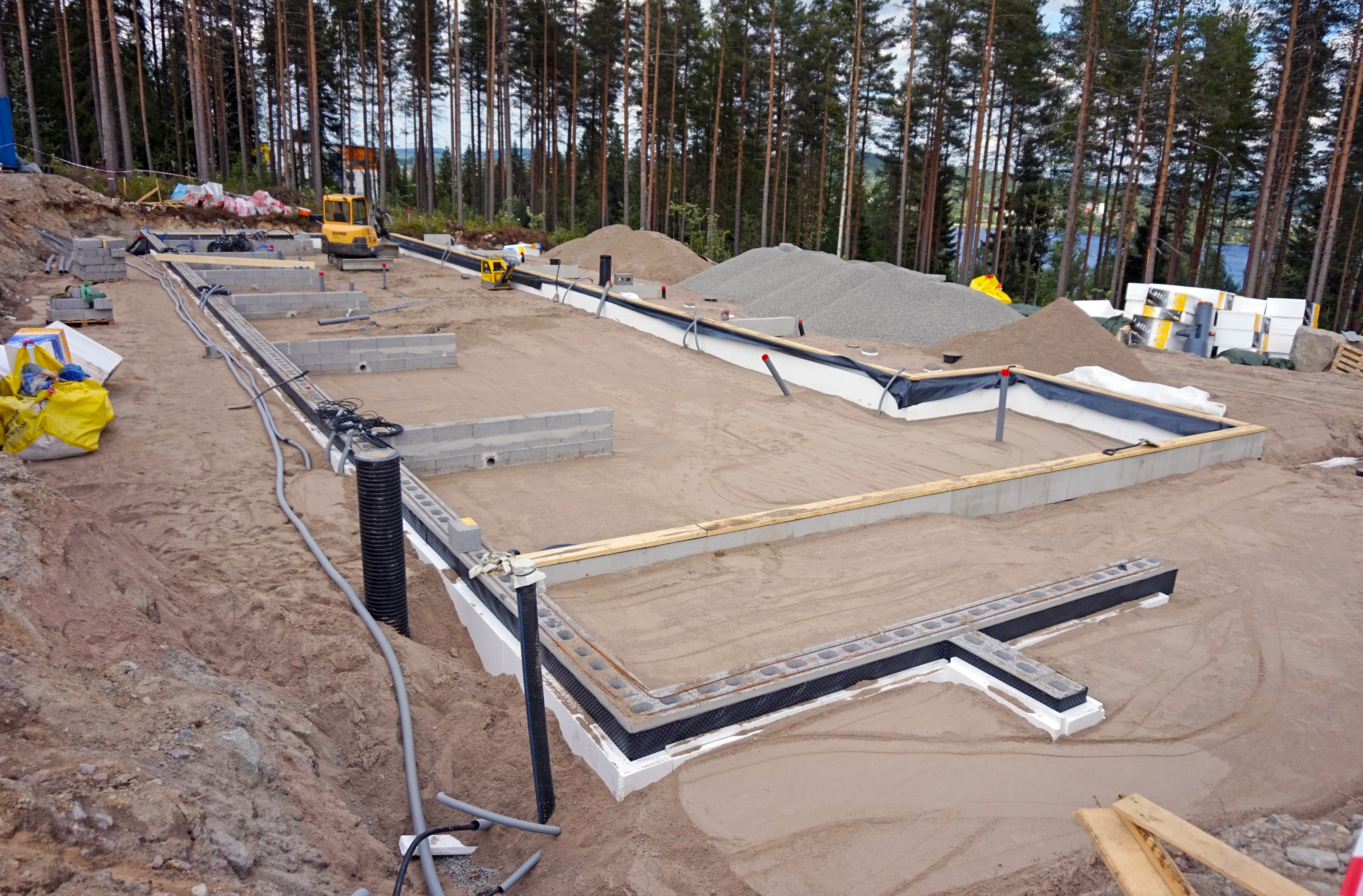 Foundation of a building. Mannisenmäentie 21, Jyväskylä.This photograph was taken with a Sony ILCE-5000